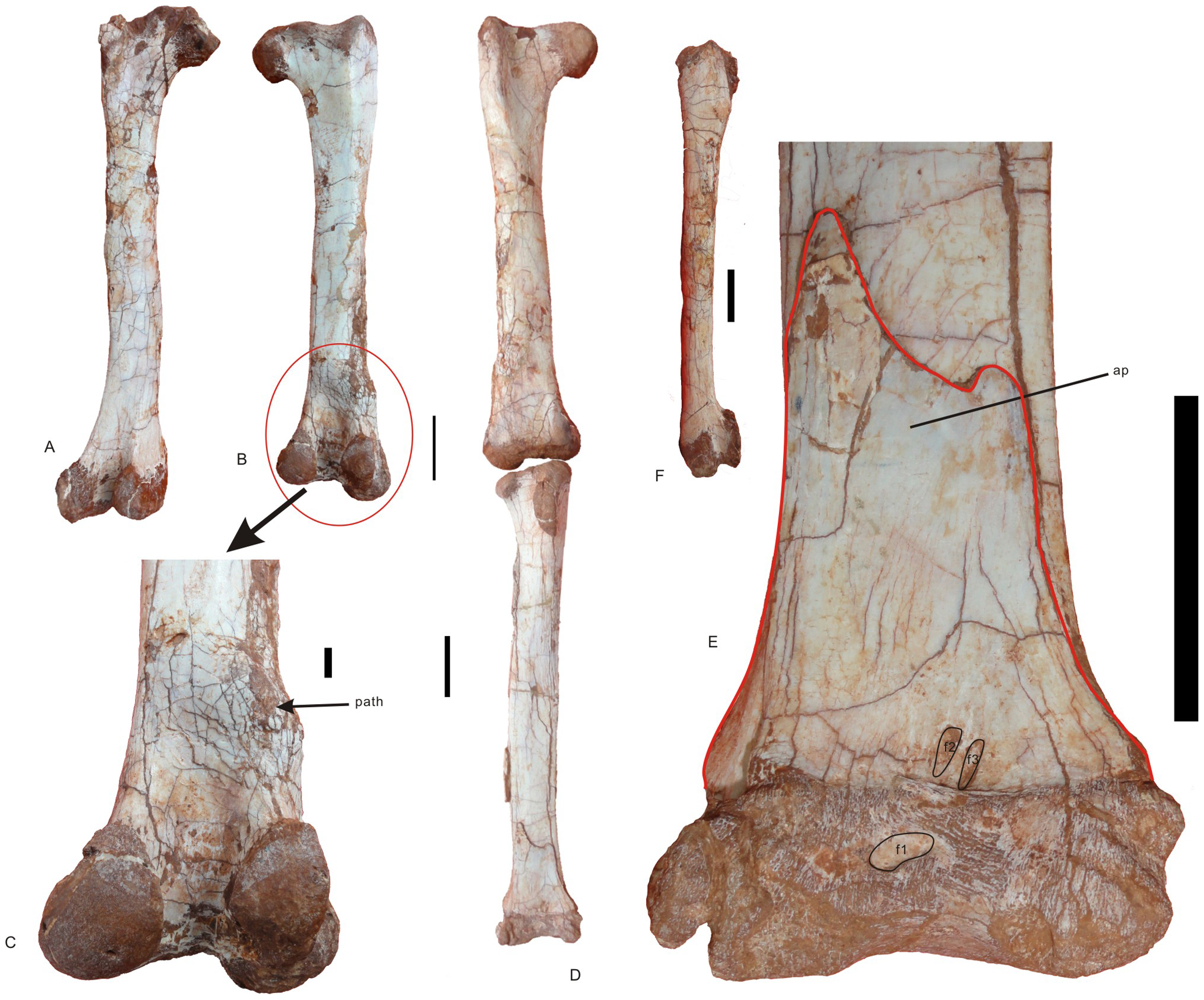 Femur, tibia, and proximal tarsals of Nankangia (GMNH F10003). A, Left femur in posterior view; B, Right femur in posterior view; C, Close up of the distal portion of the right femur in posterior view, showing the pathological area; D, Right femur and tibia in anterior view; E, Close-up of the distal portion of the tibia, the astragalus, and the calcaneum in anterior view; F, Left femur in lateral view. Abbreviations: ap., ascending process of astragalus; cal., calcaneum; f1–f3, fossae 1–3; path., pathological areas. Scale bar = 1 cm in C; 5 cm in other images.